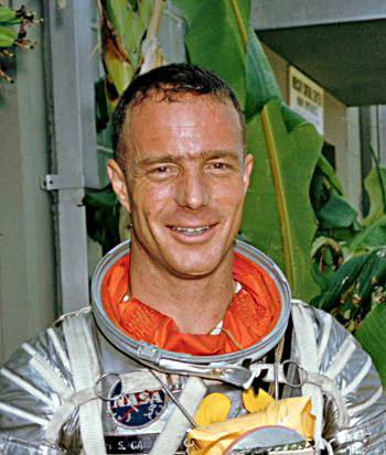 Thumbnail of a larger picture.